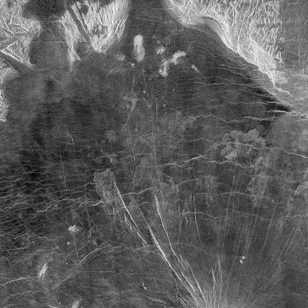 Magellan radar image of the Venera 10 landing site on Venus. The exact coordinates of the Venera 10 lander site are not known, but the estimate is centered at 15.42N,291.51E, near the southeastern edge of Beta Regio which is also the center of this image. The Venera lander panorama shows Venera 10 landed on a plain (the dark region) and not the brighter tessera. This image is about 600 km across and north is up. (Magellan C1-MIDR 15N283;1,framelet 32) Location & Time Information Date/Time (UT): N/A Distance/Range (km): 394.02 Central Latitude/Longitude (deg): +14.97/283.08 Orbit(s): 1882-1978 Imaging Information Area or Feature Type: Plains, Tessern Instrument: Synthetic Aperture Radar Instrument Resolution (pixels): 240 x 240, 8 bit Instrument Field of View (deg): 2.1 x 2.5 Filter: N/A Illumination Incidence Angle (deg): 44.3-45.7 Phase Angle (deg): 0 Instrument Look Direction: Left Surface Emission Angle (deg): 44.3-45.7 Ordering Information CD-ROM Volume: MG_0043 NASA Image ID number: C1-15N283;1 Other Image ID number: P-43847 NSSDC Data Set ID (Photo): 89-033B-01O NSSDC Data Set ID (CD): 89-033B-01C Other ID: N/A